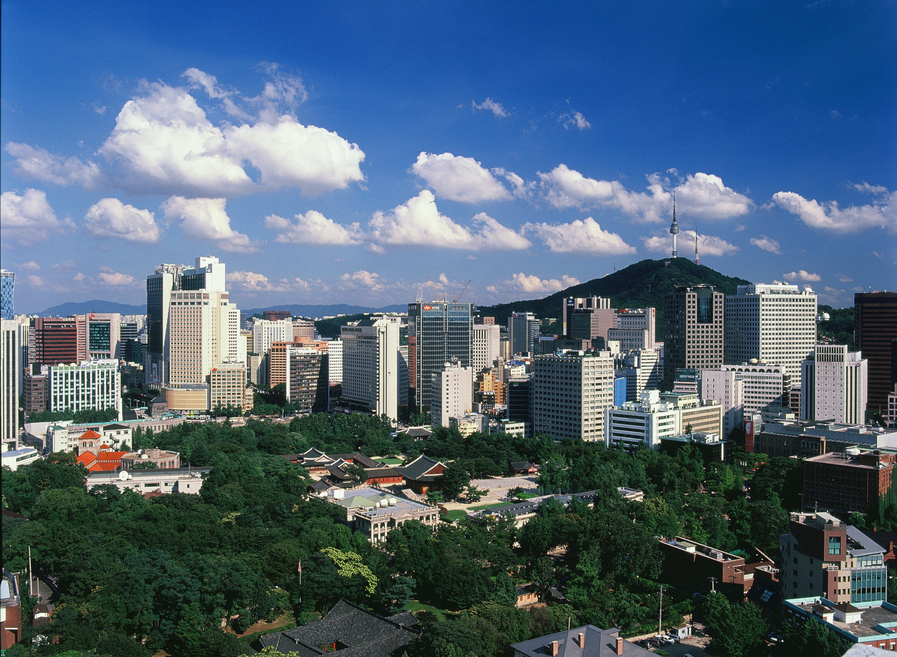 서울특별시 소방재난본부 소장 사진. photos of Seoul Metropolitan Fire&Disaster Headquarters. 이 파일은 크리에이티브 커먼즈 저작자표시-동일조건변경허락 4.0 국제 라이선스로 배포됩니다. 단 특정할 수 있는 개인이 미디어 자료에 포함되어 있을 경우 사용 전에 서울특별시 소방재난본부 및 해당 인물의 승인을 받으셔야합니다. 감사합니다.